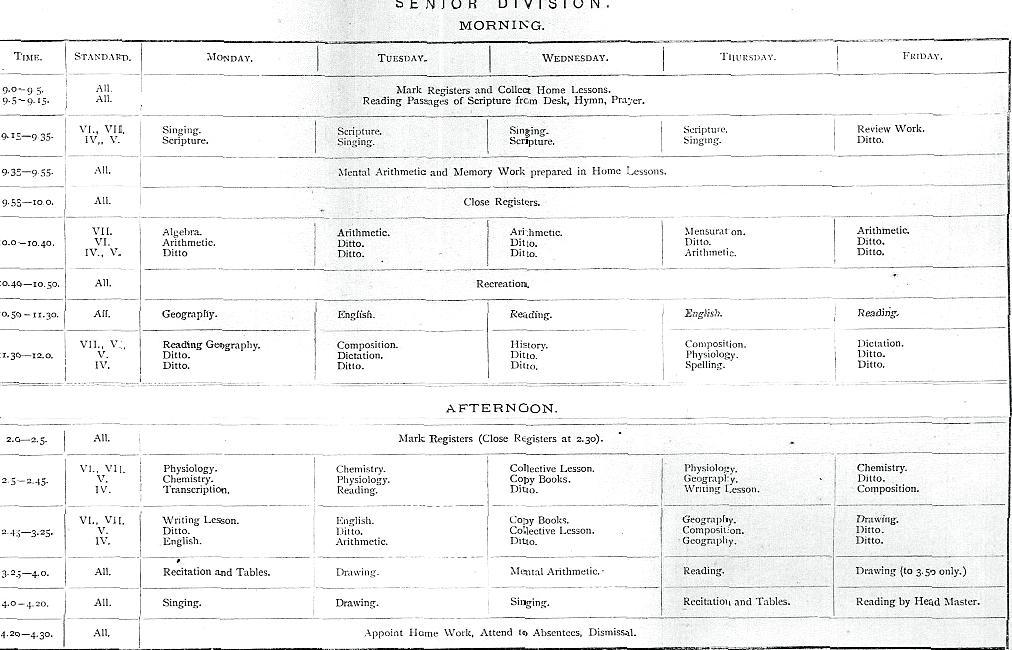 JF Gladman's Suggested timetable for years 4 to 7